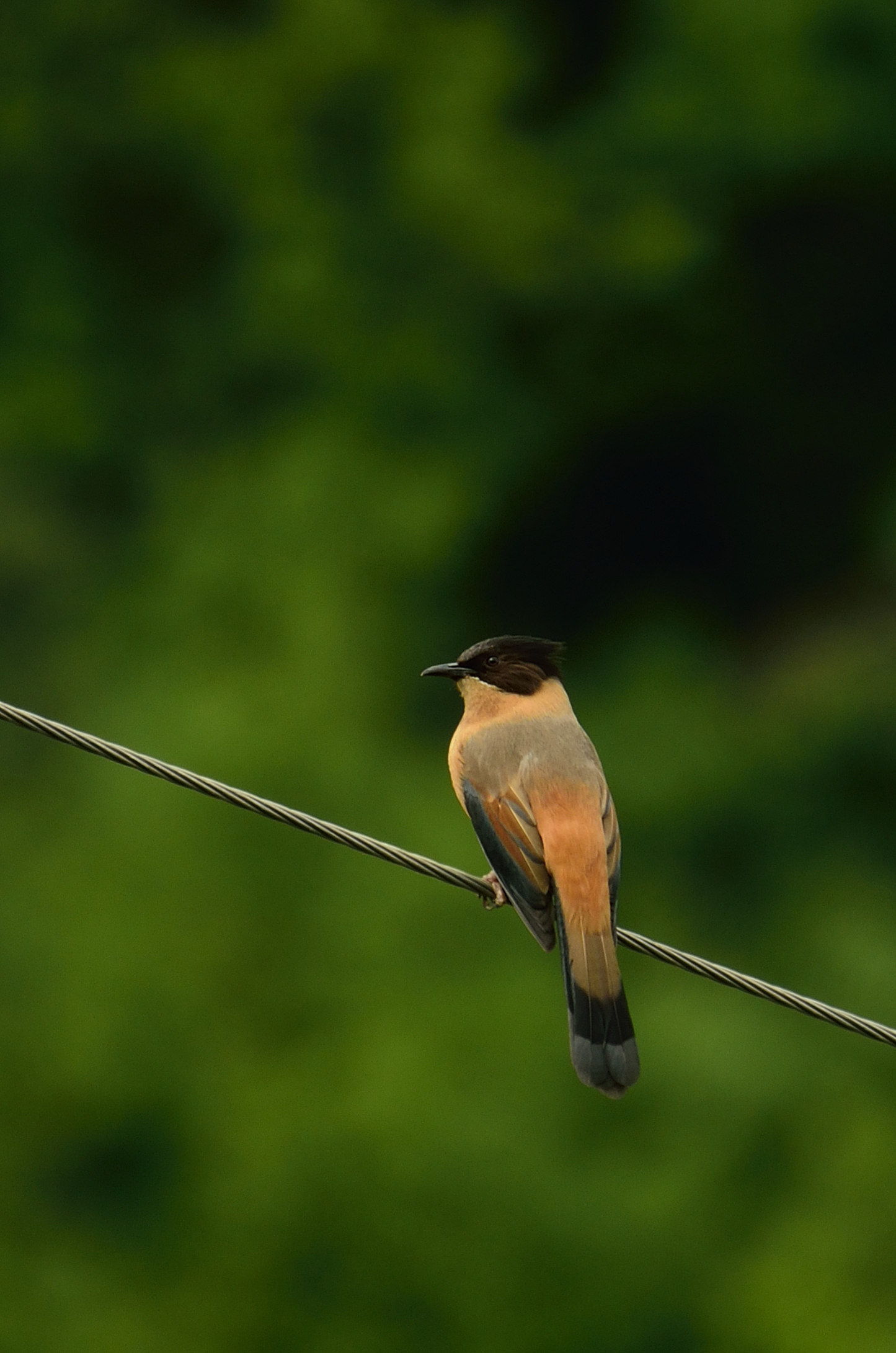 Rufous Sibia at Galu temple in Himachal. This will be Heterophasia capistrata capistrata Charles (talk) 12:42, 1 December 2019 (UTC)